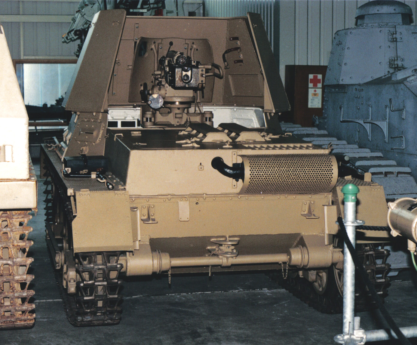 The back of a Panzerjaeger I at Koblenz